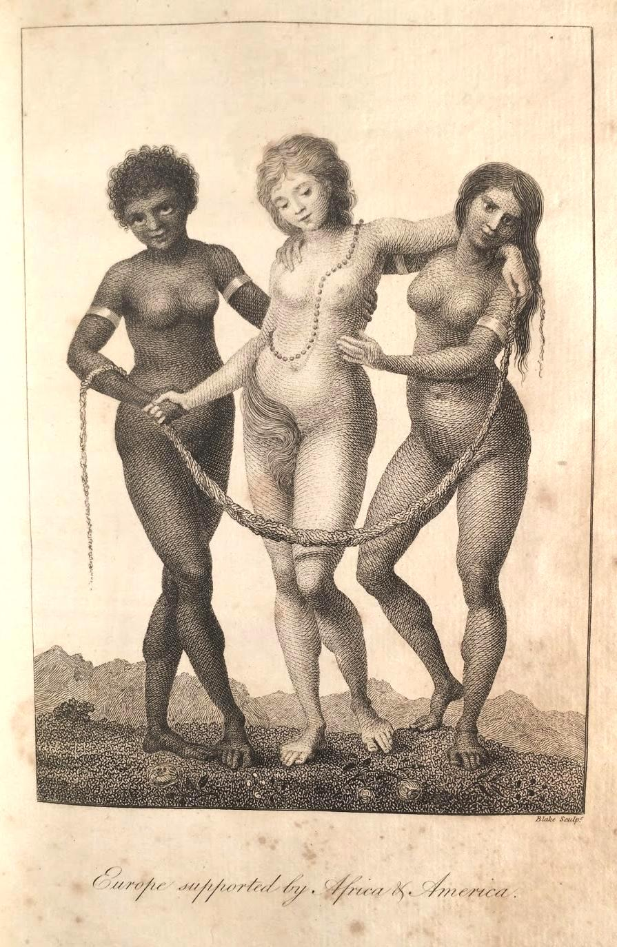 “Europe supported by Africa and America”, William Blake. The final illustration for John Gabriel Stedman’s Narrative, of a Five Year’s Expedition, against the Revolted Negroes of Surinam, in Guiana (London 1796) .